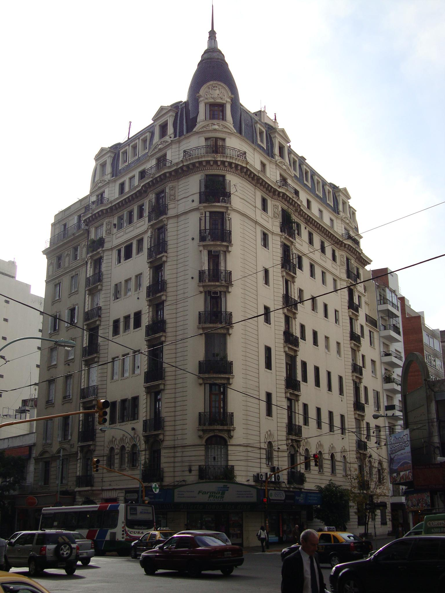 Edificio de viviendas en el barrio de Recoleta. Dirección: Av. Córdoba 2501 (esquina Larrea) Estilo: Academicismo francés Buenos Aires, Argentina.